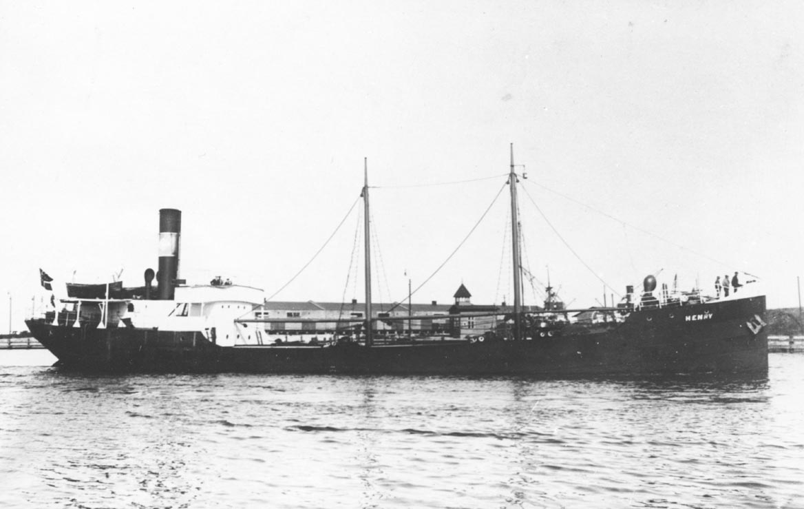 The Norwegian cargo ship SS Henry. In February 1944 she was sunk by Norwegian warships between Molde and Kristiansund.